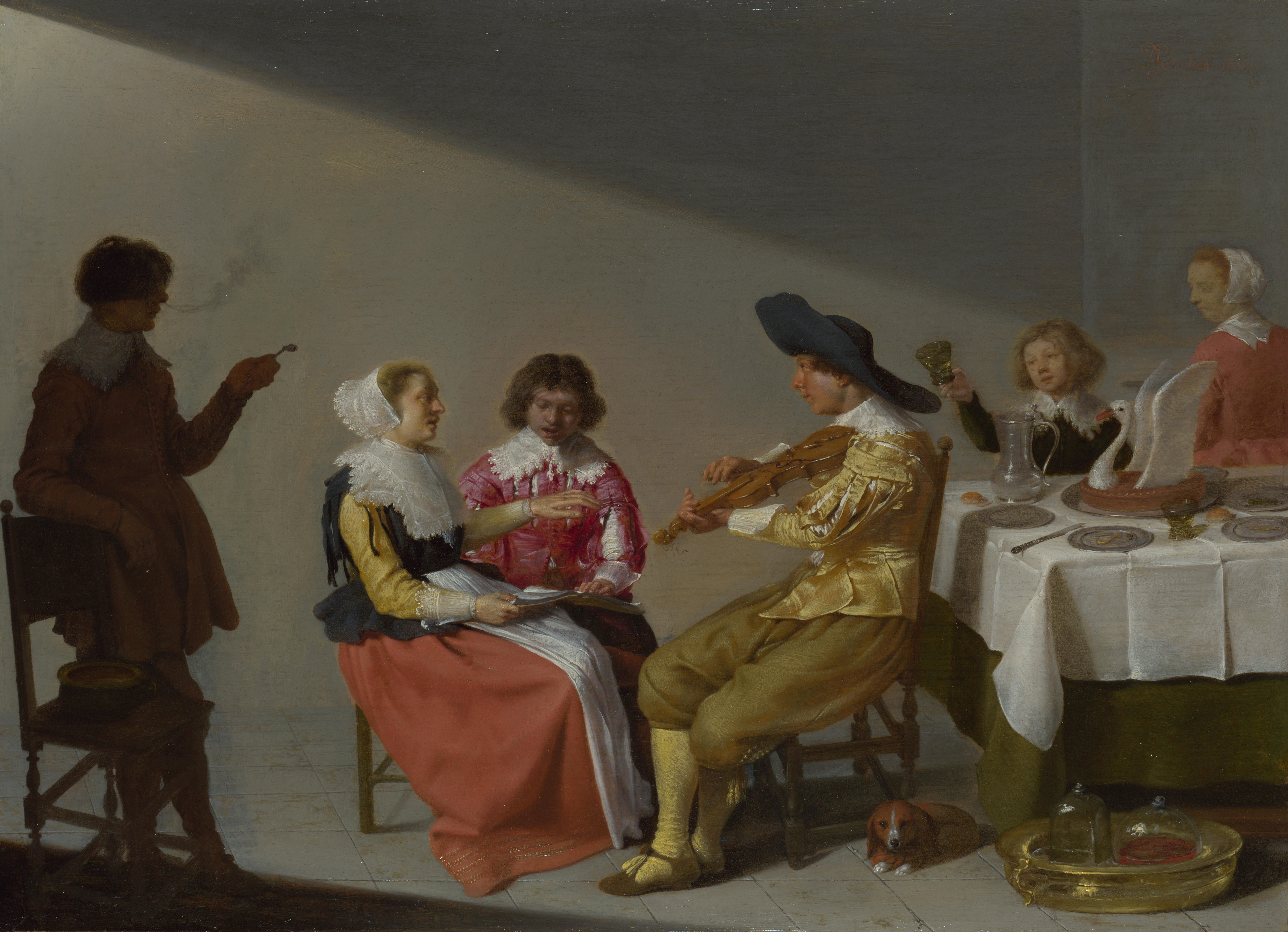 A Musical Party, 1631, Jacob van Velsen. National Gallery, London. Oil on oak. 40 x 55.8 cm. NG2575